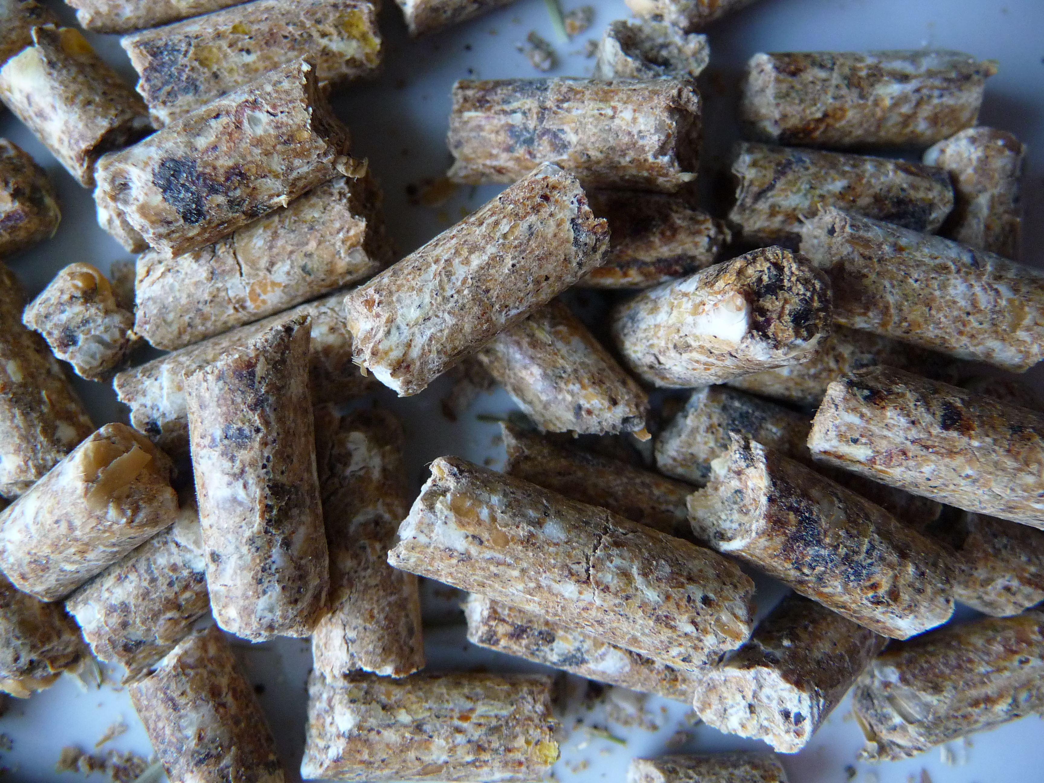 Feed pellets with pellet press for sheep and goats